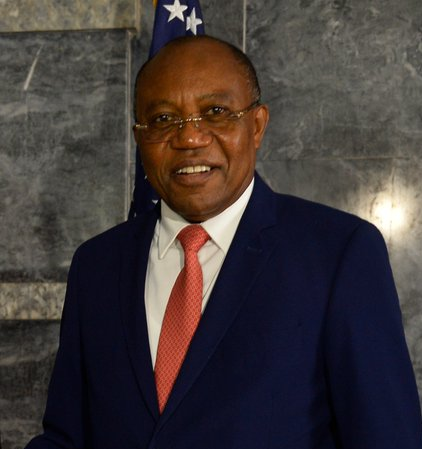 Deputy Secretary of State John Sullivan meets with Foreign Minister Manuel Augusto in Luanda, Angola on March 18, 2019. [State Department photo/ Public Domain]